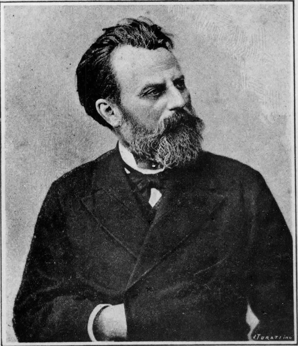 Mariano Semmola (1831-1896), Italian physician